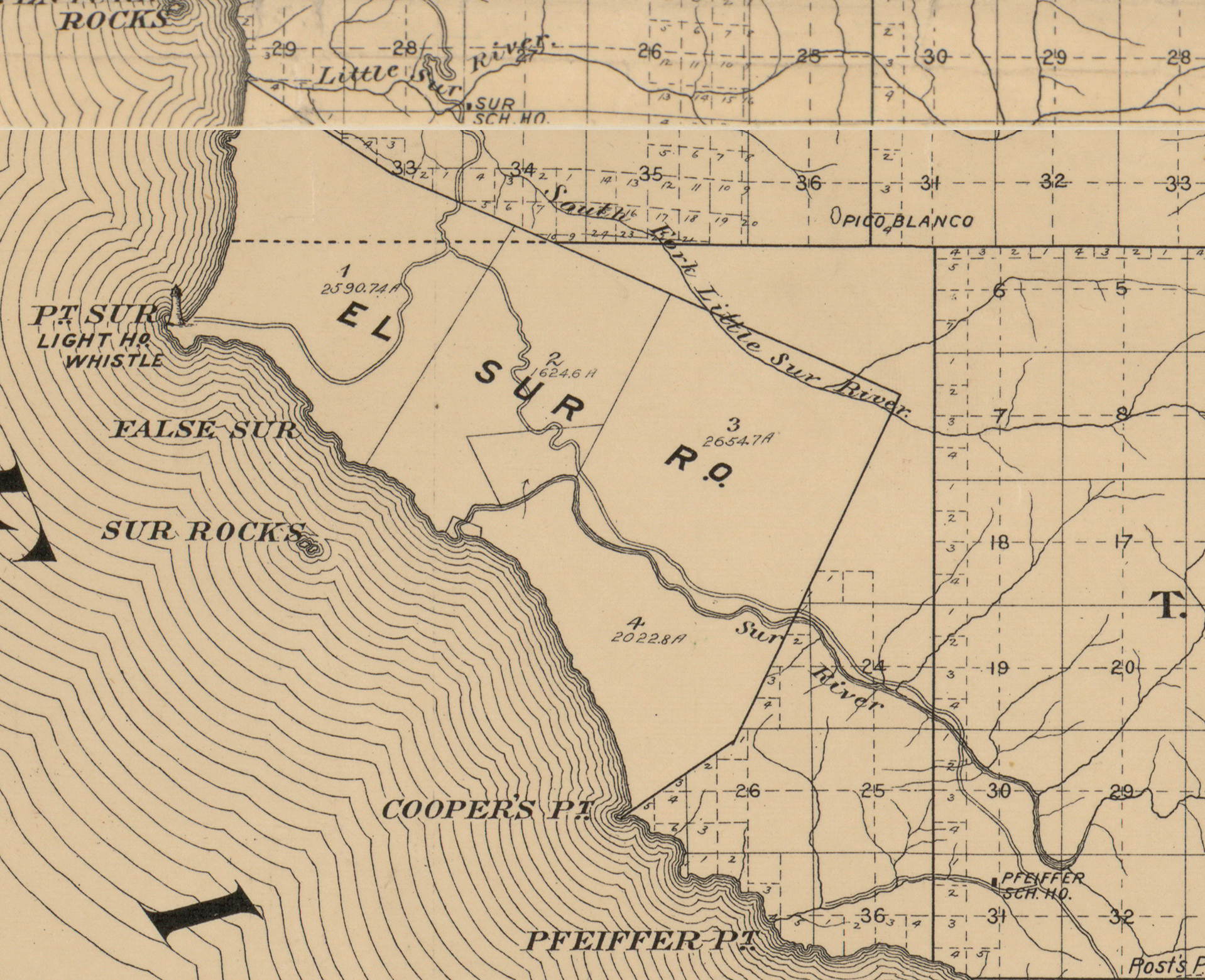 Excerpt from original map. Cadastral map showing drainage, ranchos, township & section lines, parcels, roads, railroads, canals, etc. LC land ownership maps, 28 "Approved and declared the official map of Monterey County, California, this 3rd day of May, 1898." LC copy rubber-stamped on lower left margin: 745B. One map on 2 sheets : col., cloth backing ; 146 x 179 cm., sheets 77 x 186 cm. Library of Congress Geography and Map Division Washington, D.C. 20540-4650 USA dcu